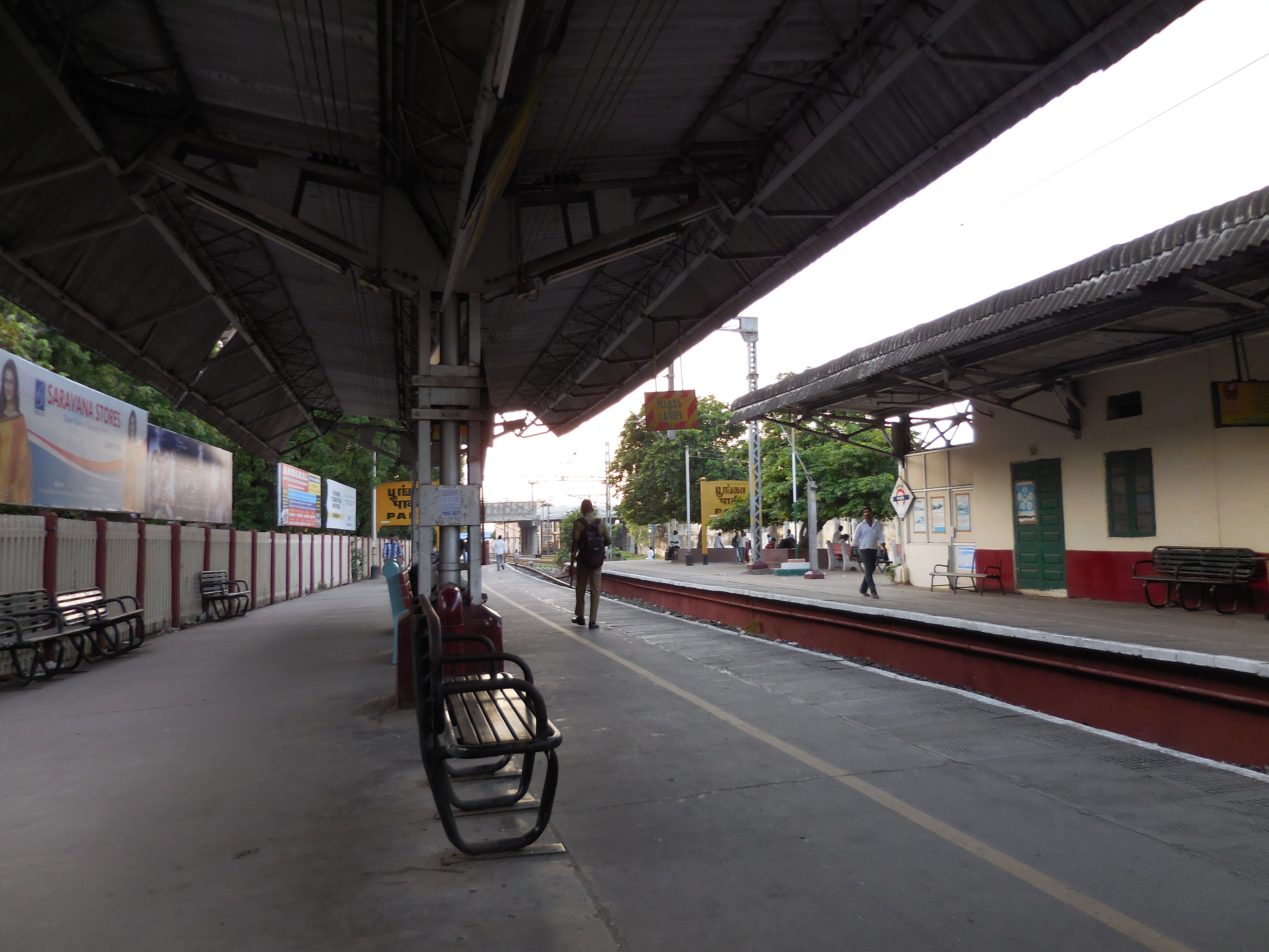 Chennai Park railway station view towards east, taken on 5 July 2014, 6:12 am